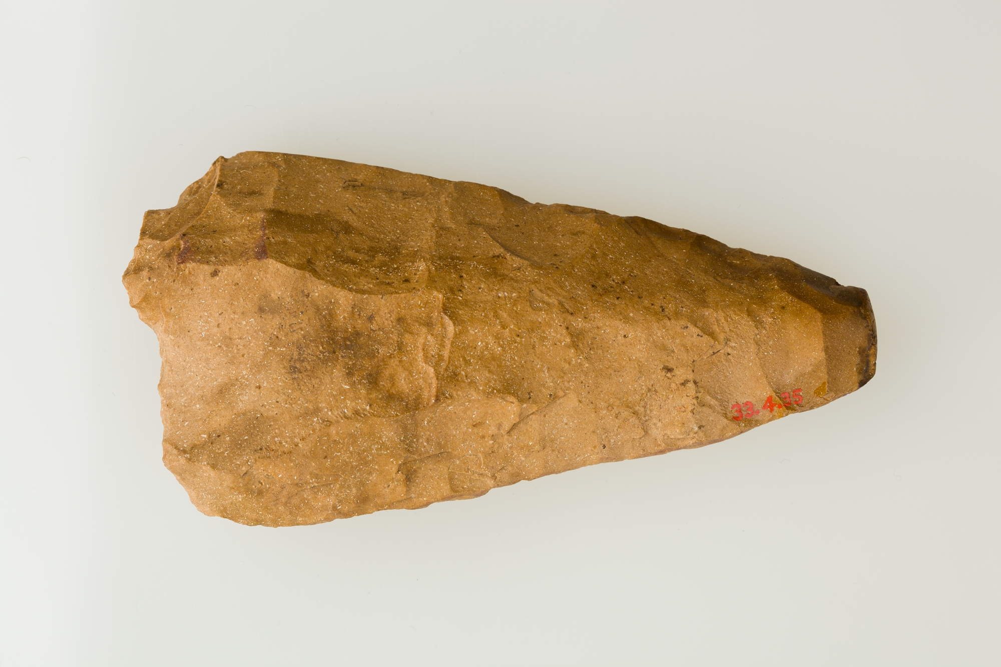 Hand ax